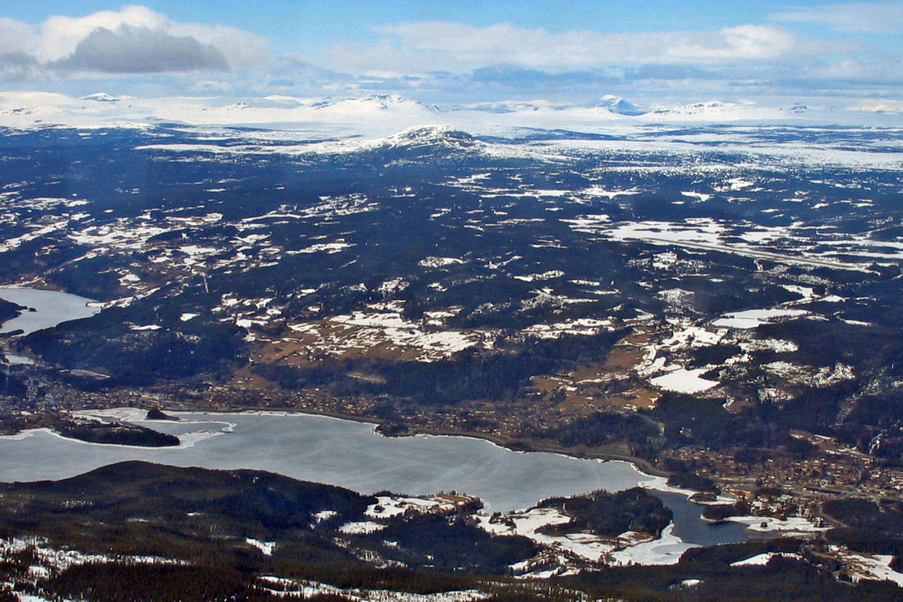 Fagernes city to the left and Leirin airport til the right. Photo taken by myself April 10th 2004.